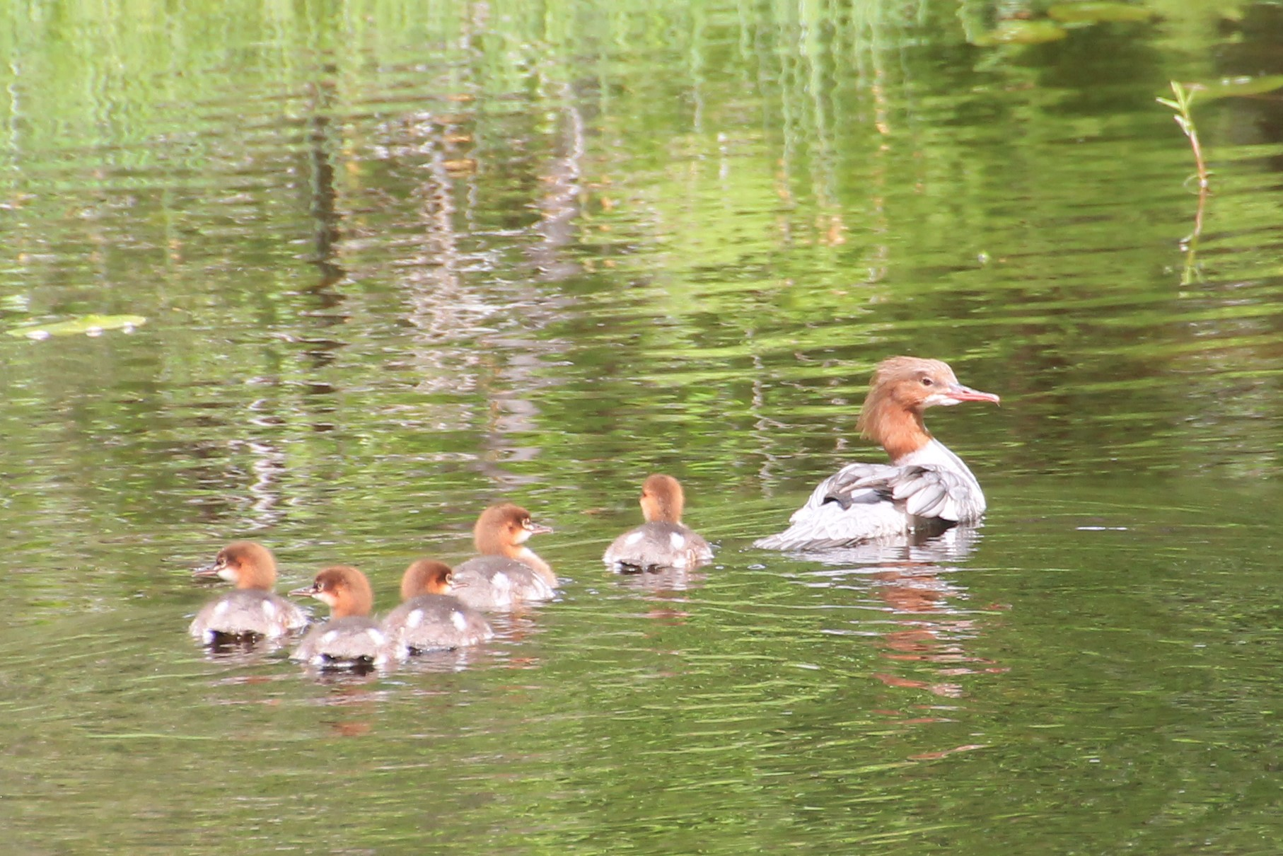 Mergus merganser merganser female with babies.